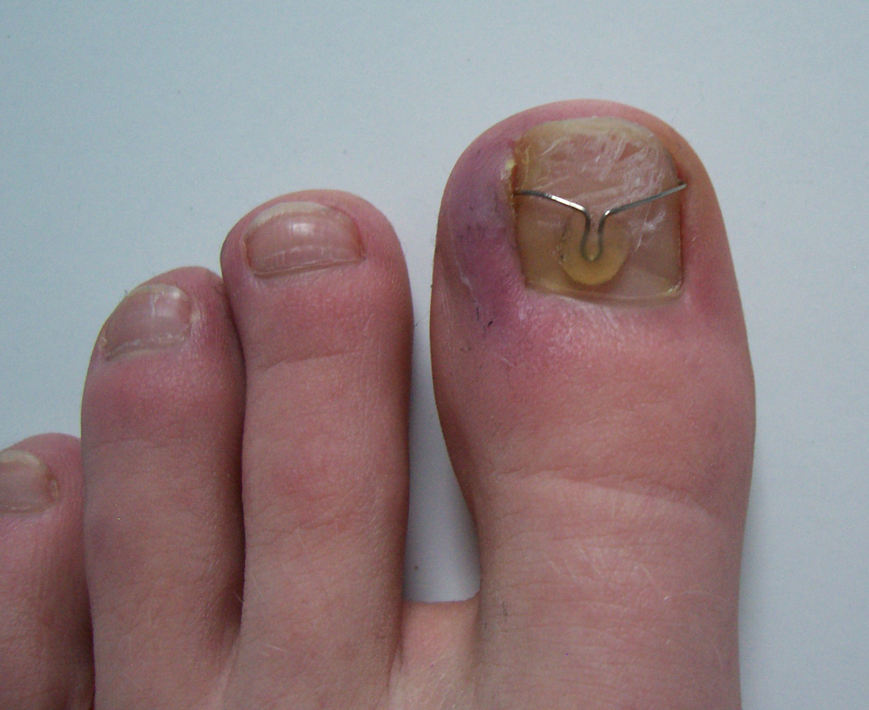 Unfortunately there was no english article on Wikipedia when I uploaded this file. :-/